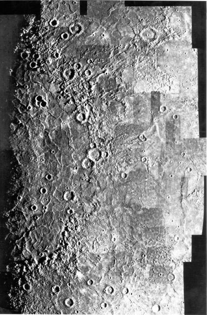 This mosaic shows the Caloris Basin (located half-way in shadow on the terminator). Caloris is Latin for heat and the basin is named this because it is near the subsolar point (the point closest to the sun) when Mercury is at perihelion (the closest point in its orbit to the sun).